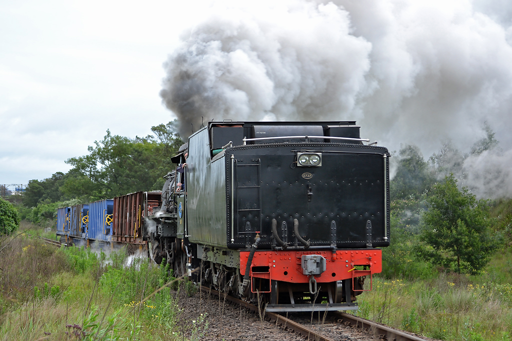 Type MT Tender No. 2737 working on SAR Class 19D No. 2685.